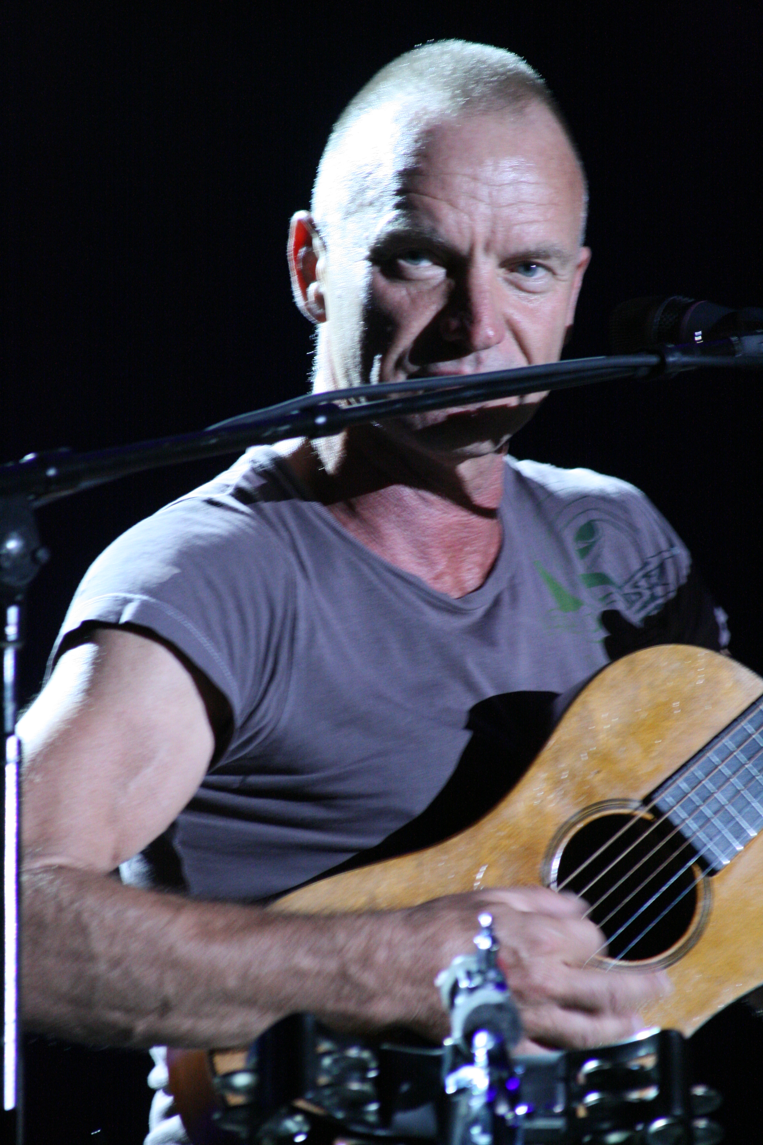 Papp Laszlo Budapest SportArena